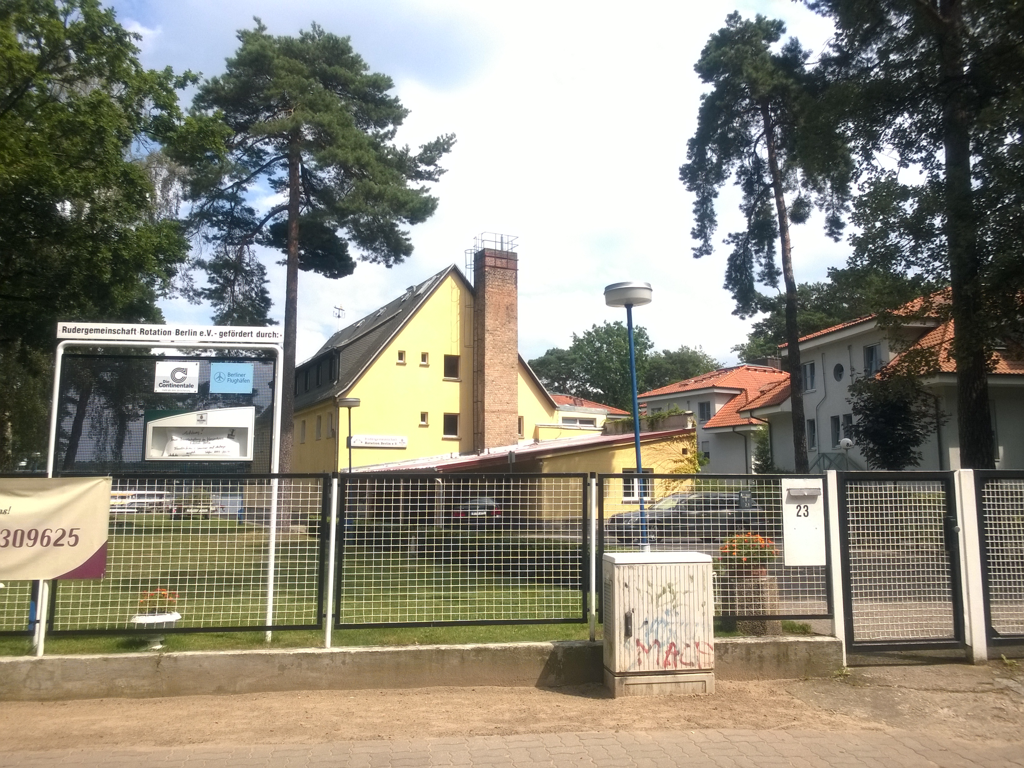 Berlin-Schmöckwitz Vetschauer Allee Rotation